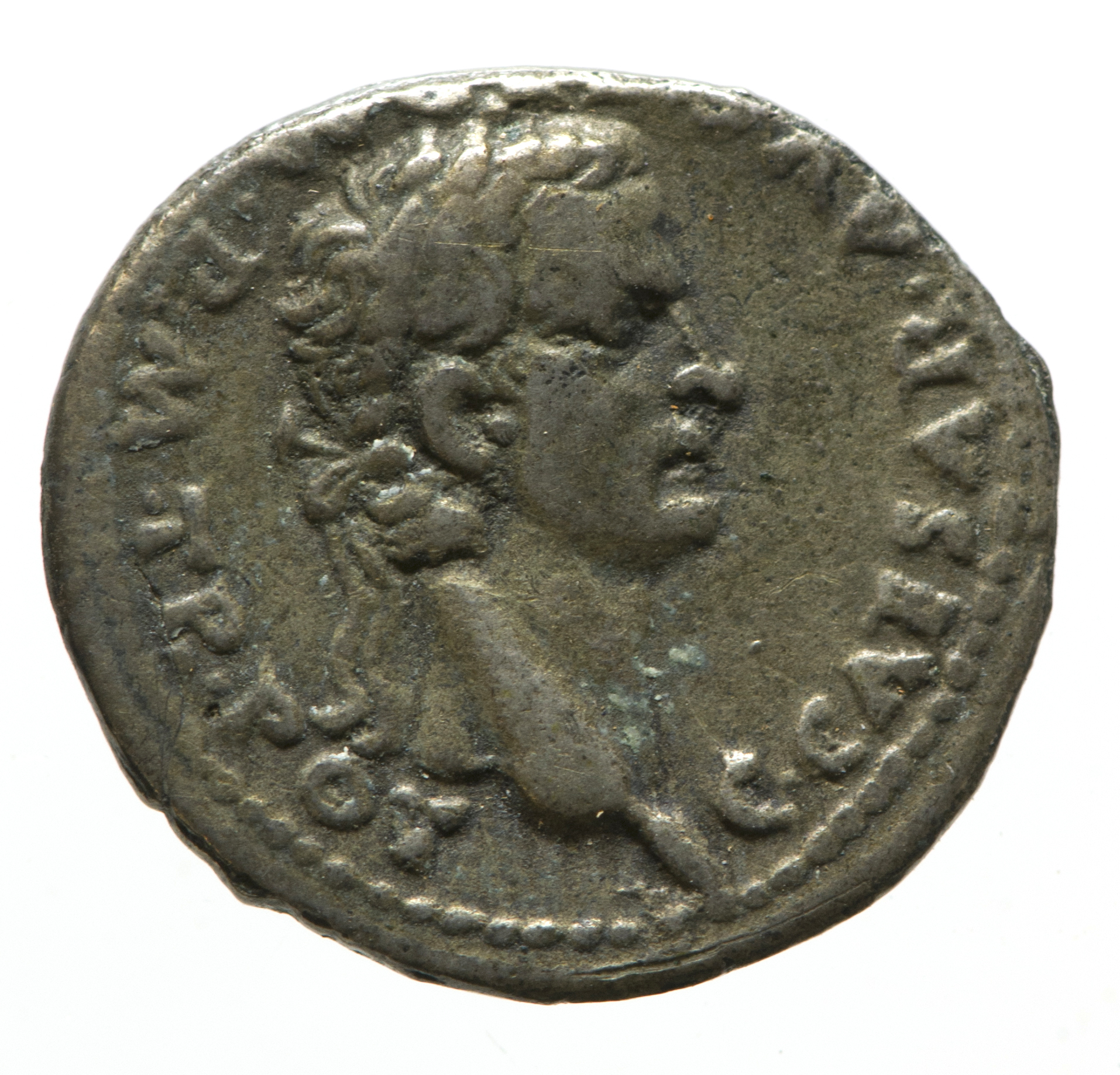 Obverse (front) of a denarius of Gaius Caligula head facing right laureate